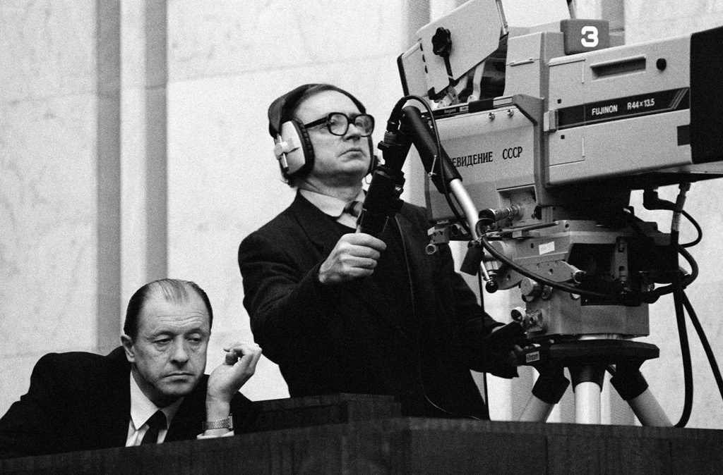 “Vladimir Medvedev”. KGB General Vladimir Medvedev, left, security service chief and bodyguard of Soviet General Secretaries Leonid Brezhnev (1906-1982) and Mikhail Gorbachev.